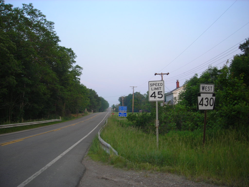 Pennsylvania Route 430 heading westbound.